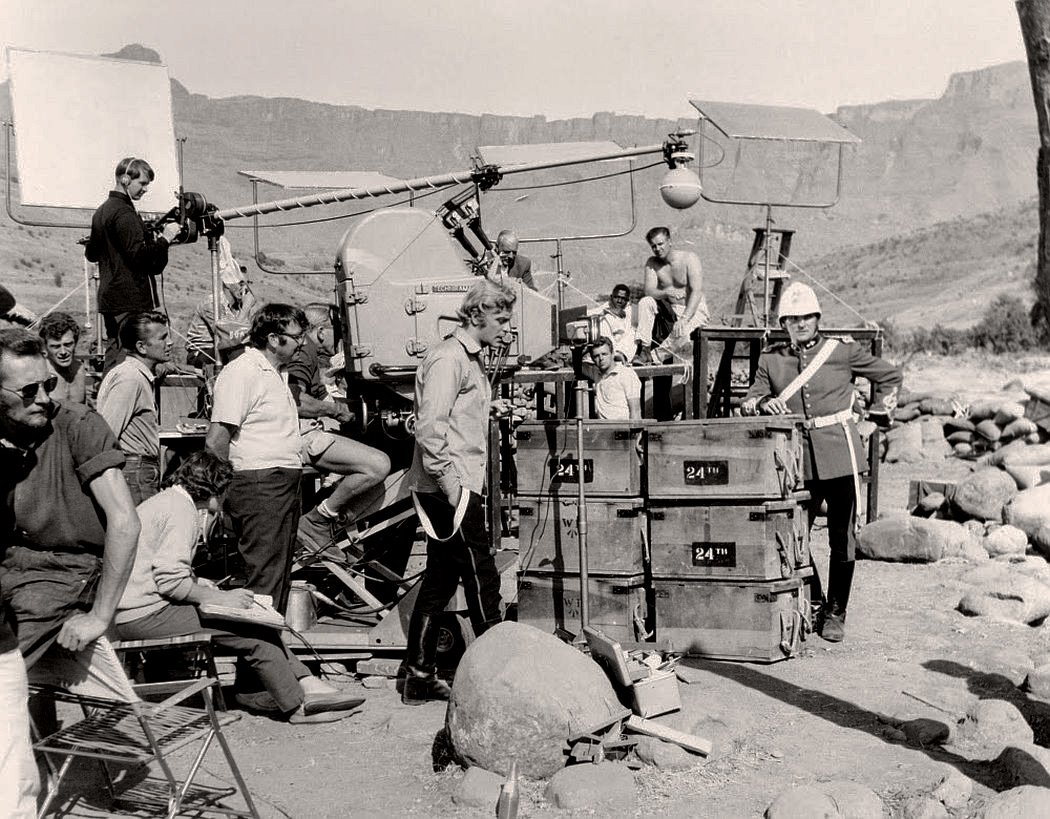 Behind the scenes on the location set of the film Zulu with stars Michael Caine and Stanley Baker present.